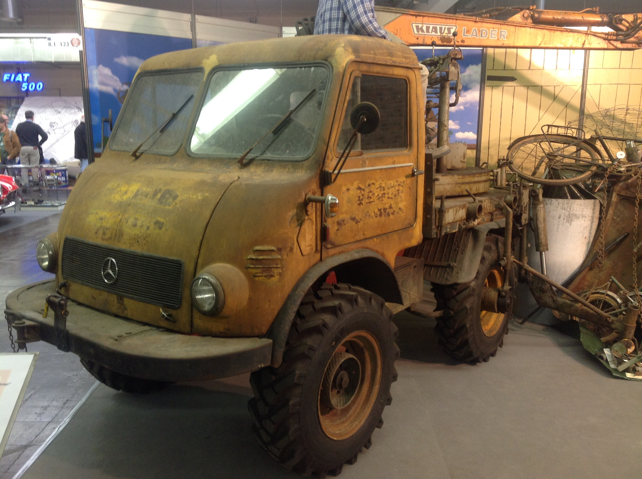 As old as I am!